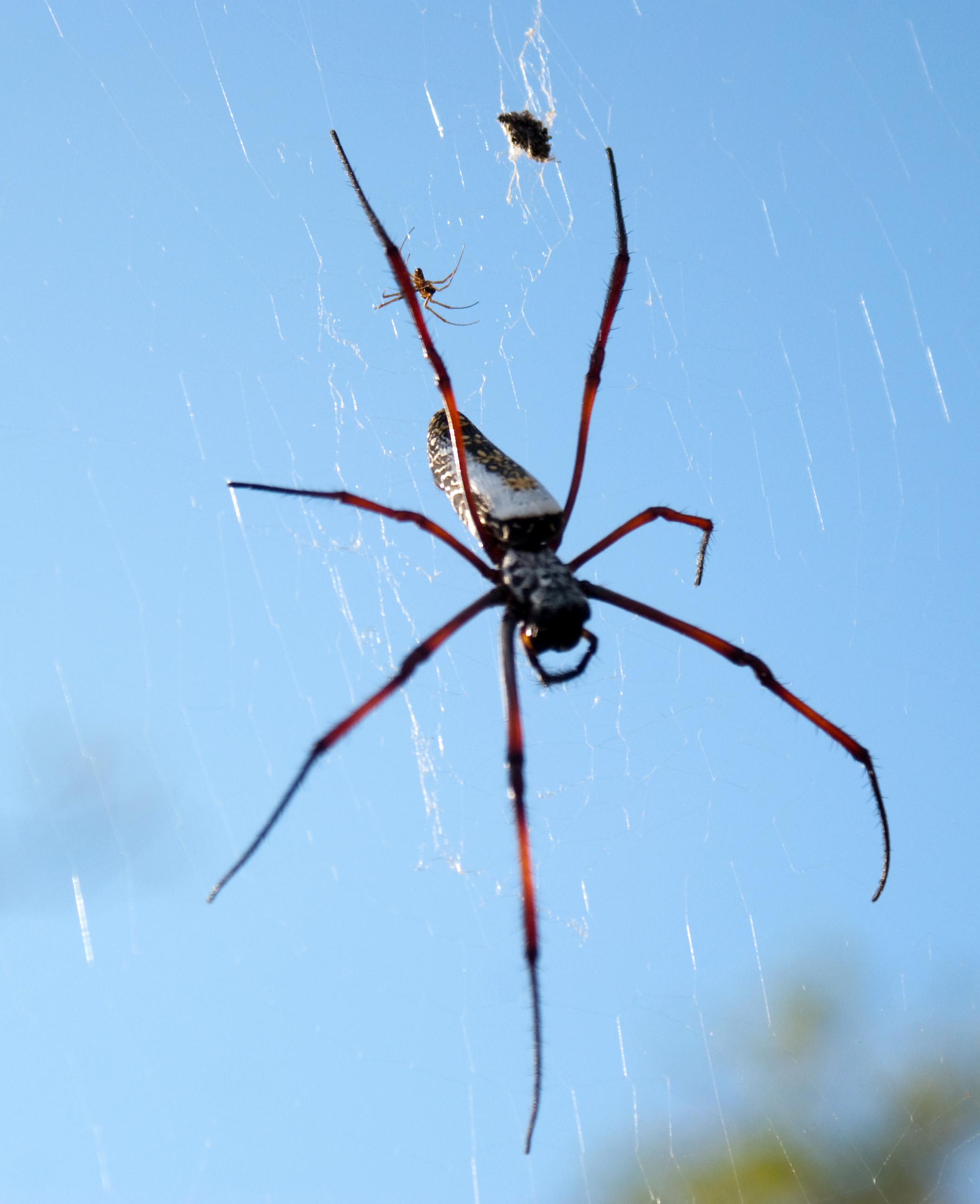 Big spider genus Nephila , Juan de Nova in Indian Ocean belonging to Scattered islands, within the territory of the France.